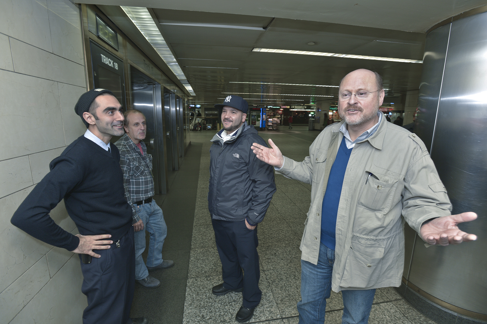 MTA Chairman and CEO Joe Lhota meets with transit workers.